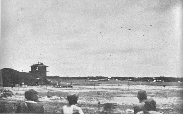 Reinforcements of Imperial Japanese Army paratroopers over the Palembang airfield, February 15, 1942.